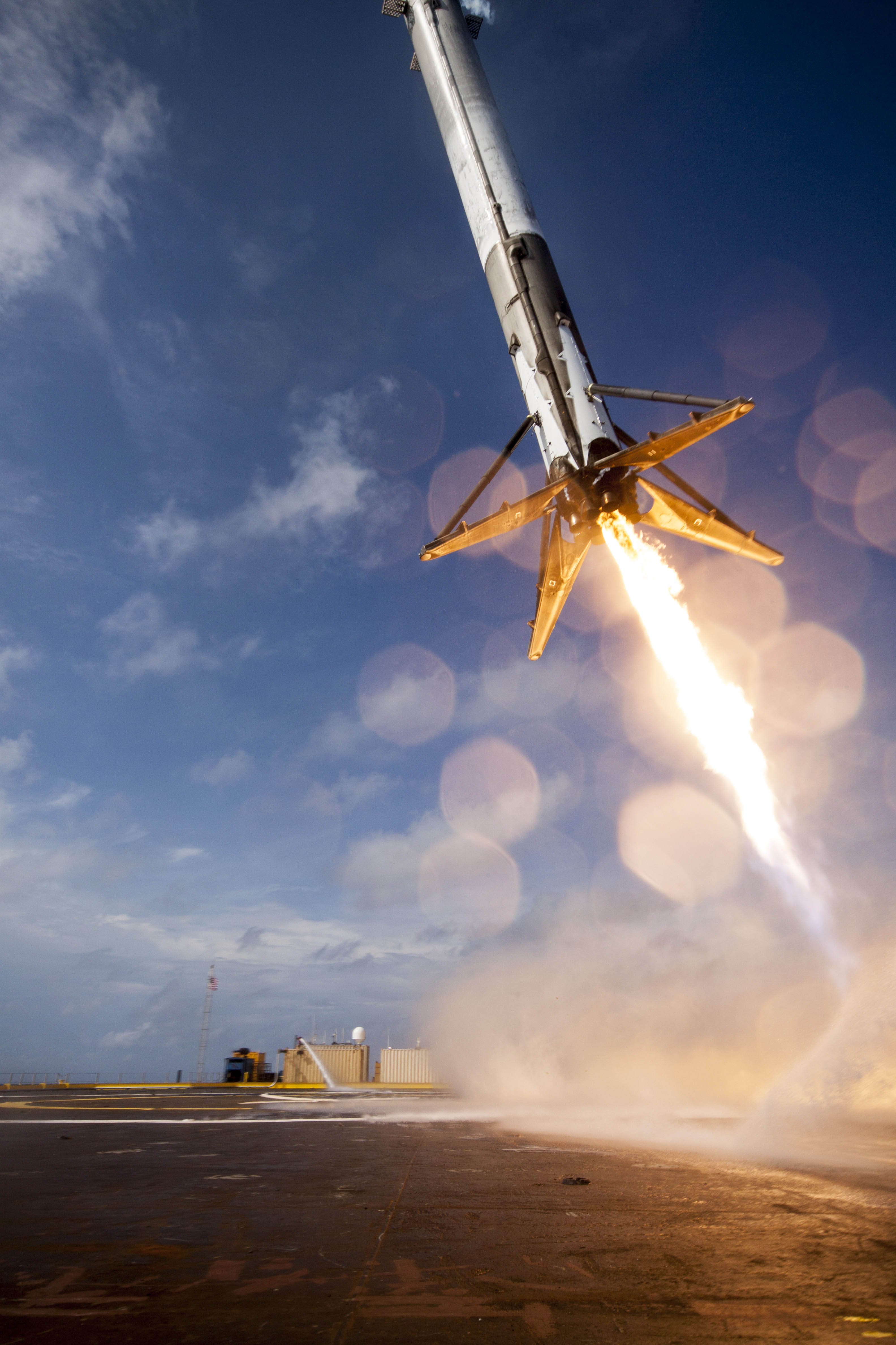 Falcon 9 v1.1 first stage approaches Autonomous spaceport drone ship Just Read the Instructions in the Atlantic Ocean after successfully launching SpaceX CRS-6 to the International Space Station.